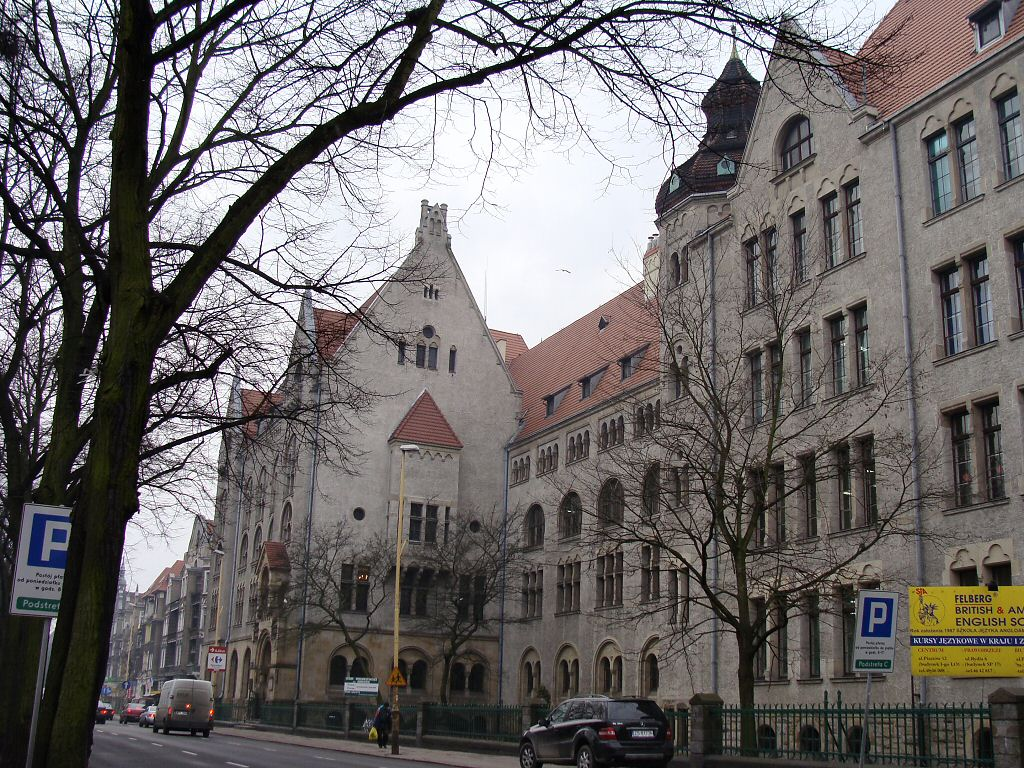 Szczecin al. Piastów 12